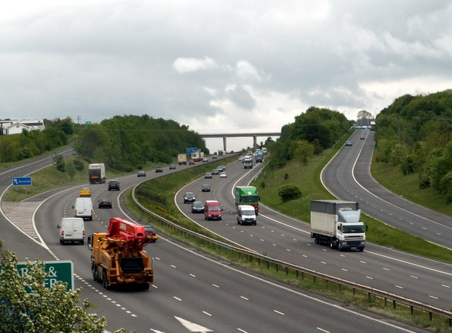 M1 South from Dennington Lane Bridge. The left hand slip road is to Woolley Services going south. The right hand slip road is from Woolley Services going north. Junction 38 Haigh is the next exit from the M1 going south.